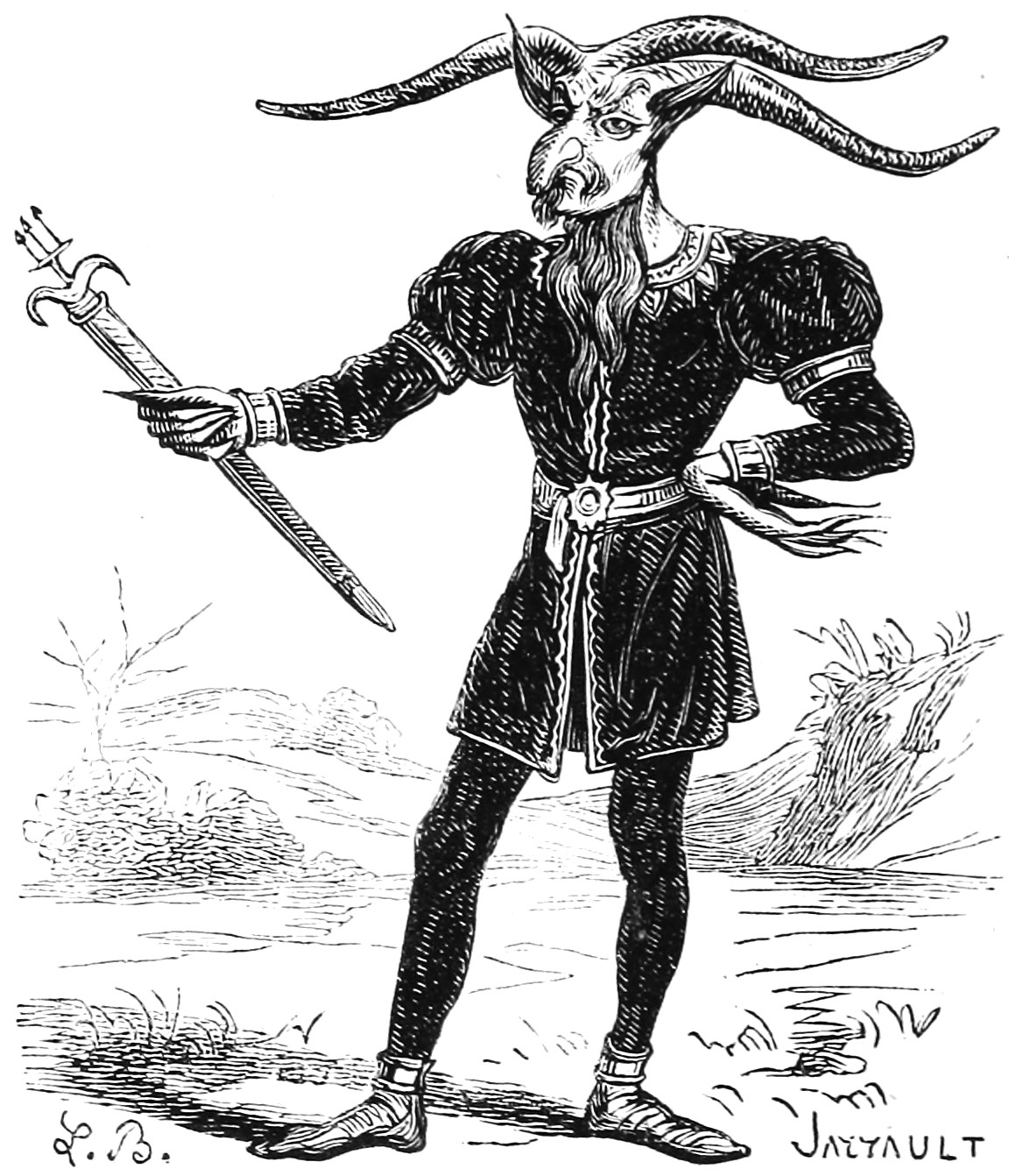 The demon Leonard